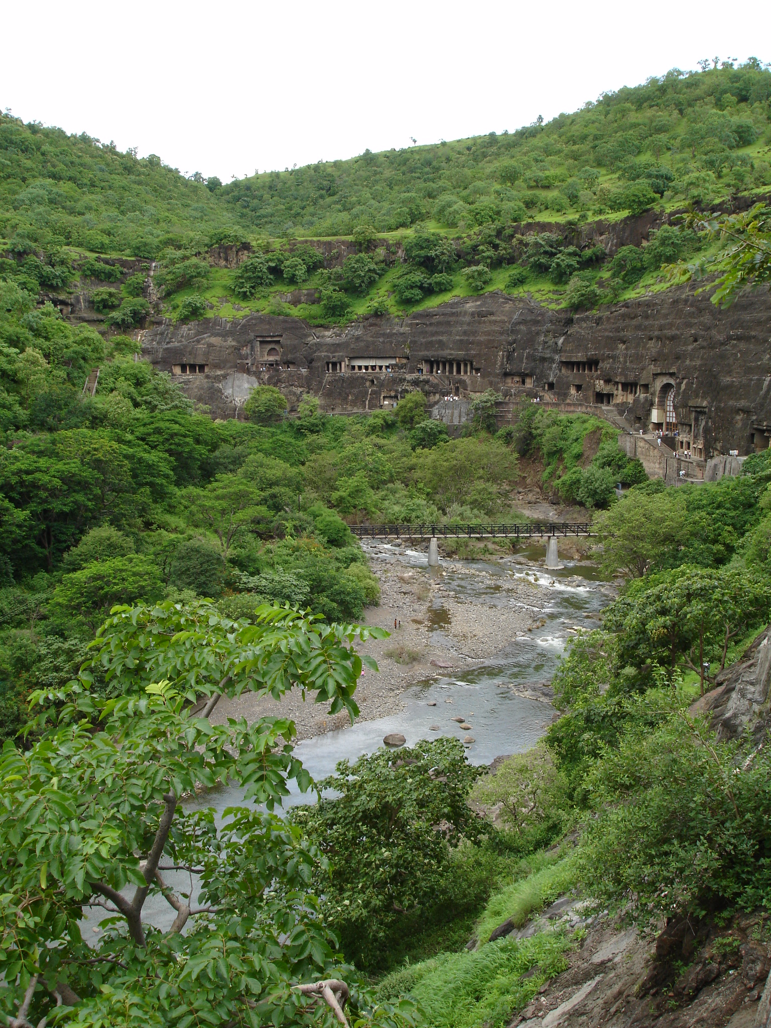 thumb|Ajanta Caves.